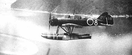 The Yokosuka E14Y "Glen" This pre-1945 image is believed to be copyright-free, as it is a Japanese photograph older than 50 years. If copyright exists in this image, use here is asserted to be fair use.